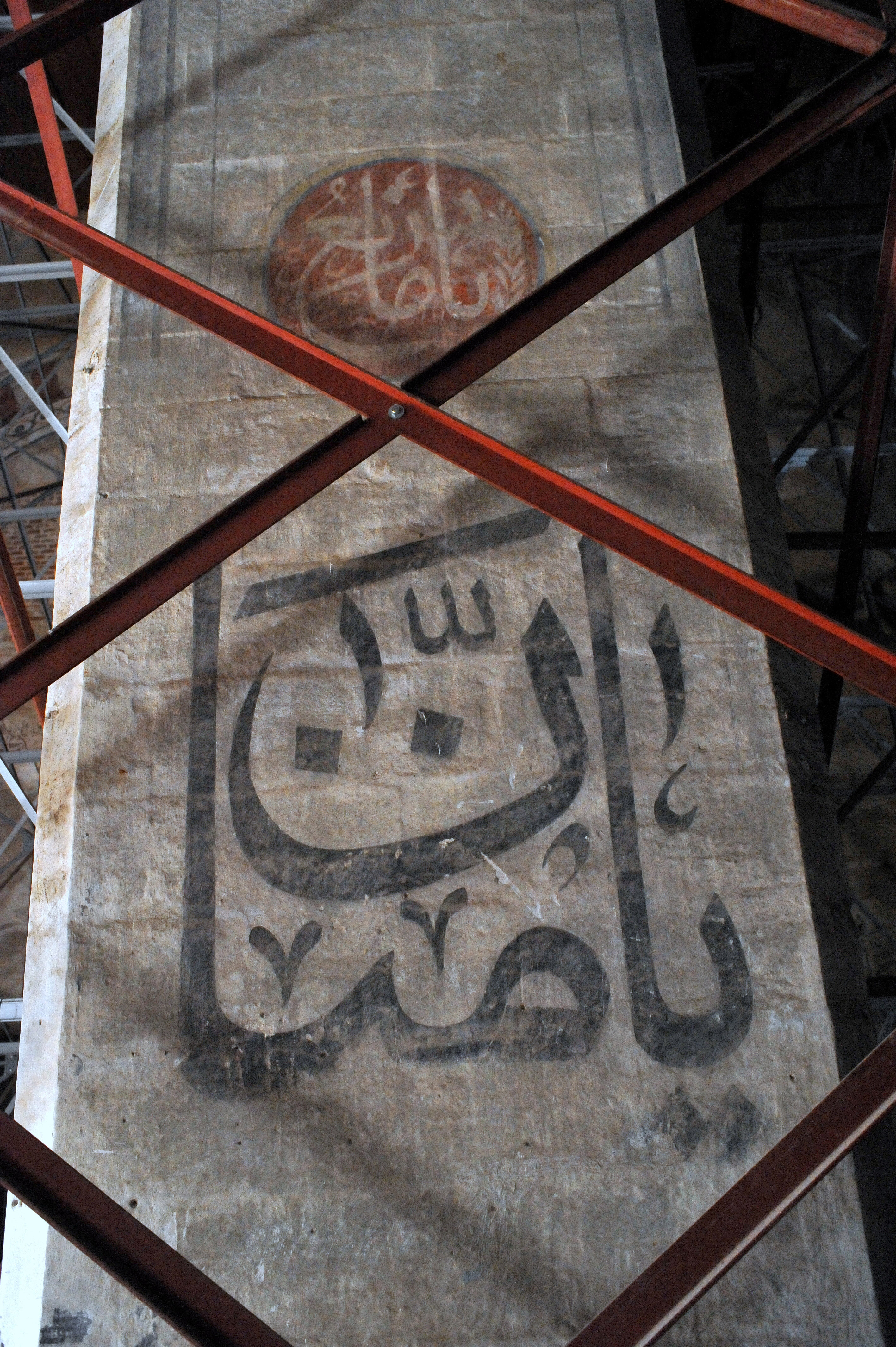 Bayezid (Mehmed I) Mosque (inside - under renovation), Didymoteicho, Evros, Greece.